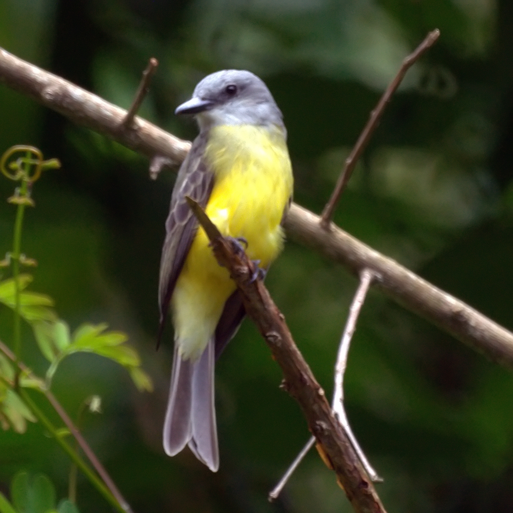 Tyrannus melancholicus - Tropical Kingbird